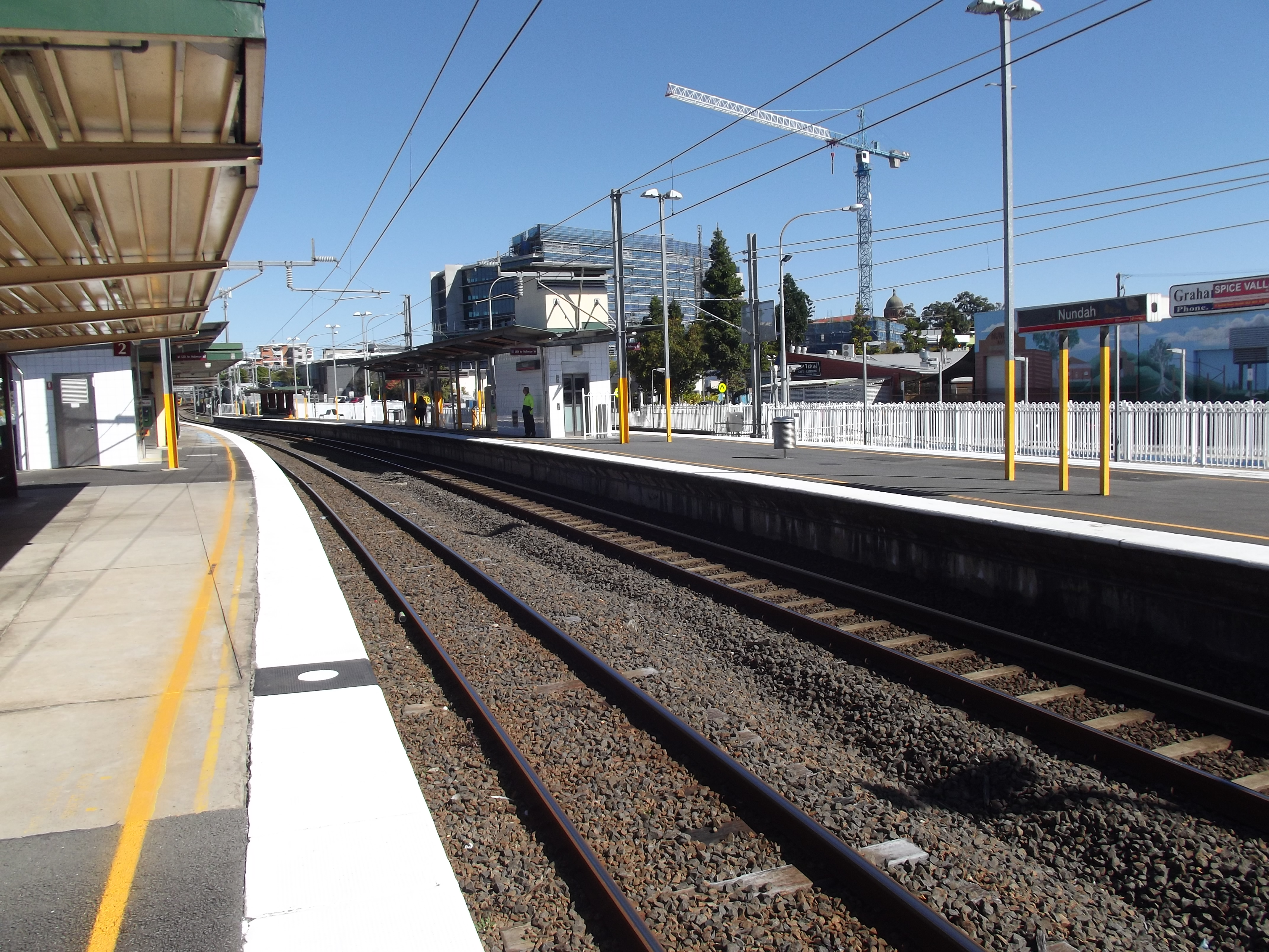 Nundah station, on the Caboolture/Shorncliffe line.